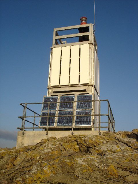 Point of Sleat lighthouse. I was surprised when I got here to find this solar powered concrete structure.